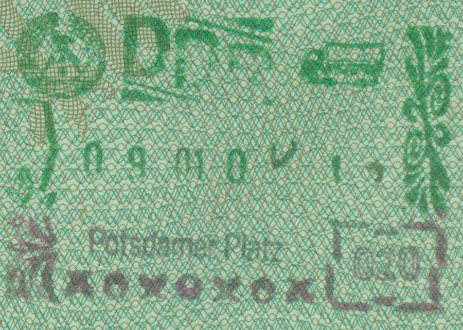 Berlin Wall, passport visa Potsdamer Platz